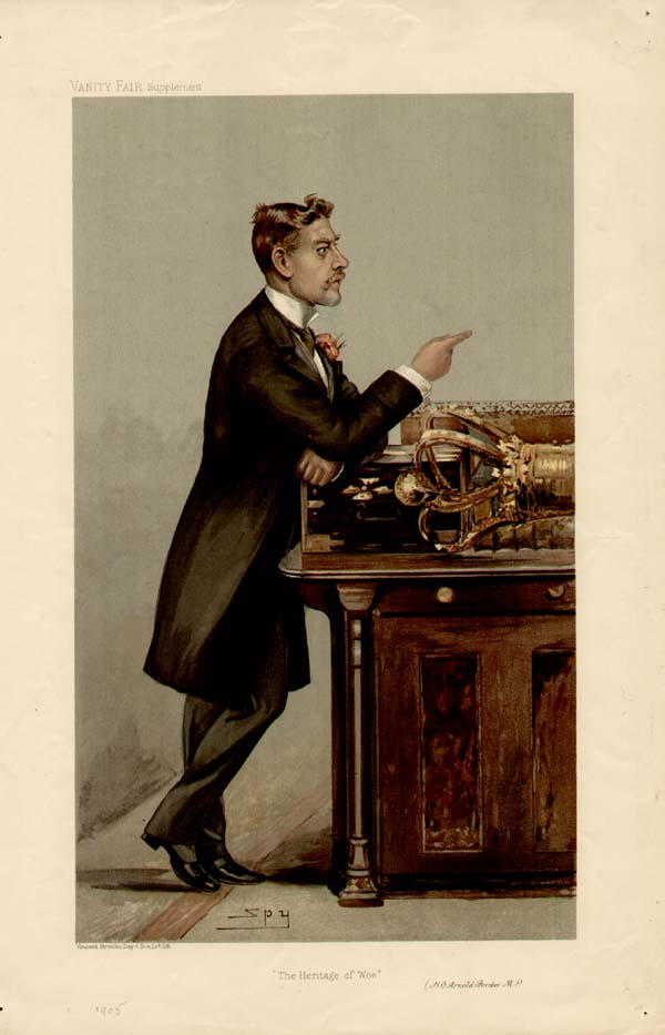 Men of the Day No.978: Caricature of The Rt Hon HO Arnold-Forster MP. Caption reads: "The Heritage of Woe"